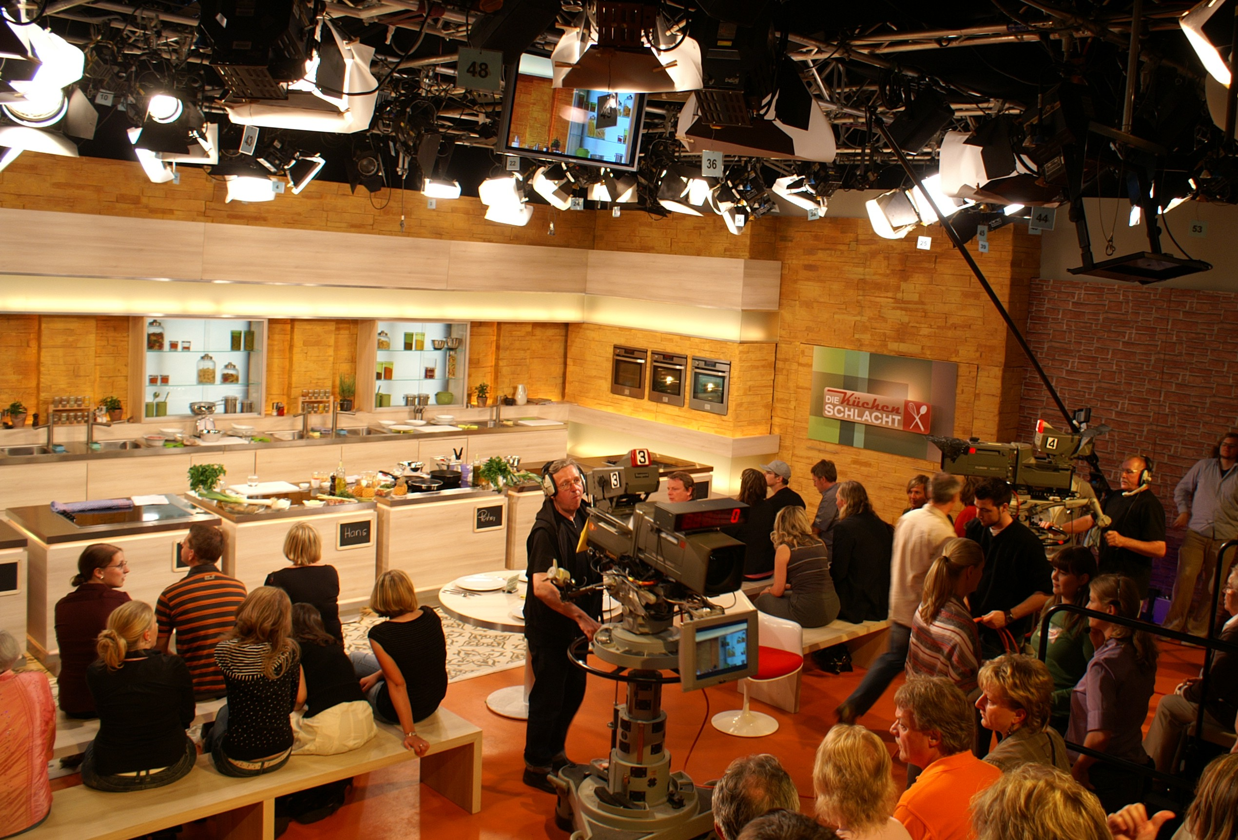 Television studio from second german Television Die Küchenschlacht in Hamburg-Rothenbaum.